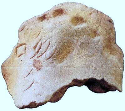 Bodrog-Alsóbű Szekely-Hungarian Rovas Inscription